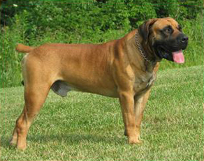 A Boerboel